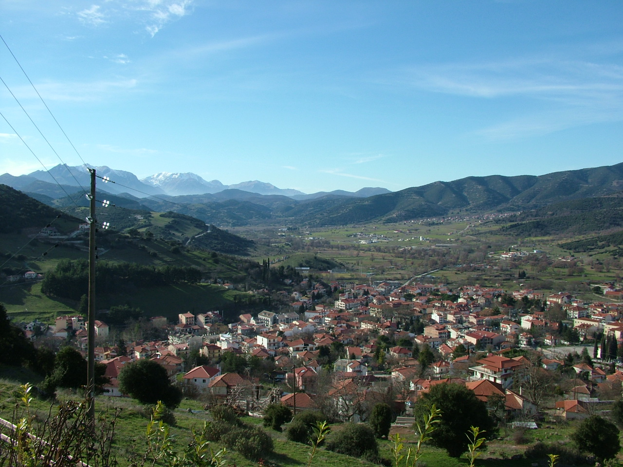 View of Kalavryta, Greece, seen from the east. Mount Erymanthos in the background.